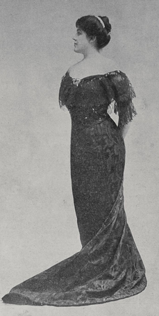 A white woman, standing, with dark hair in a bouffant updo, wearing a dark gown with bare shoulders, lace sleeves, and a long train.